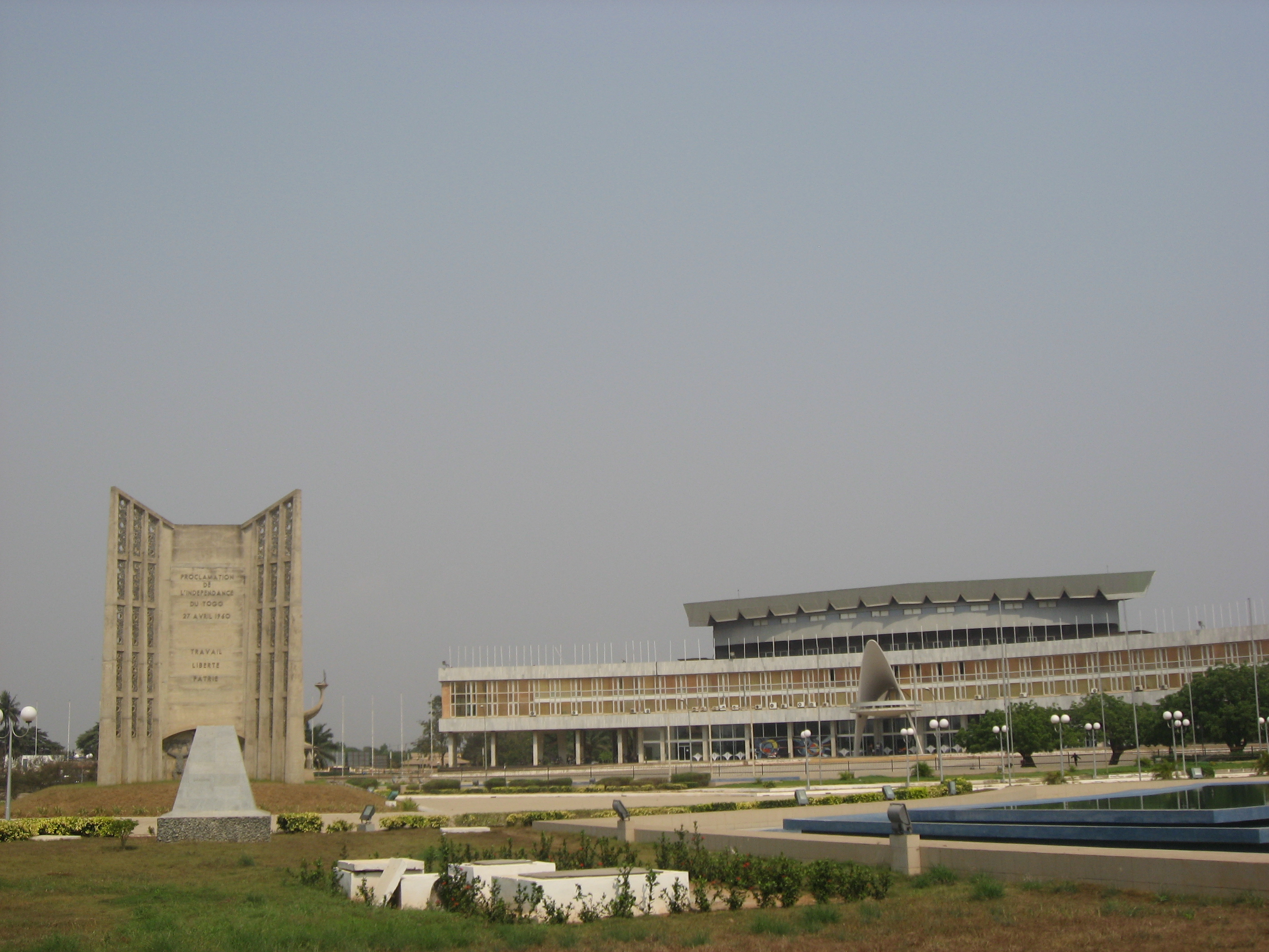 National Assembly building and Monument of Independence in Lomé, Togo